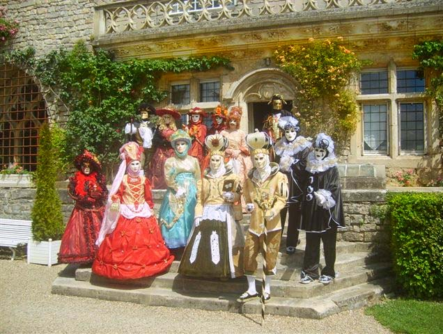 Masquerade ball at Hattonchatel Chateau, France